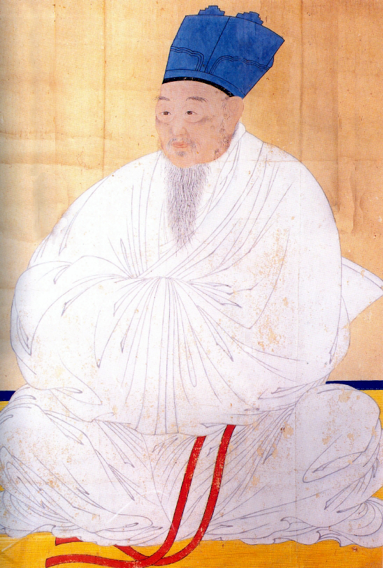 Korea-Portrait of Chang Hyungwang-Joseon